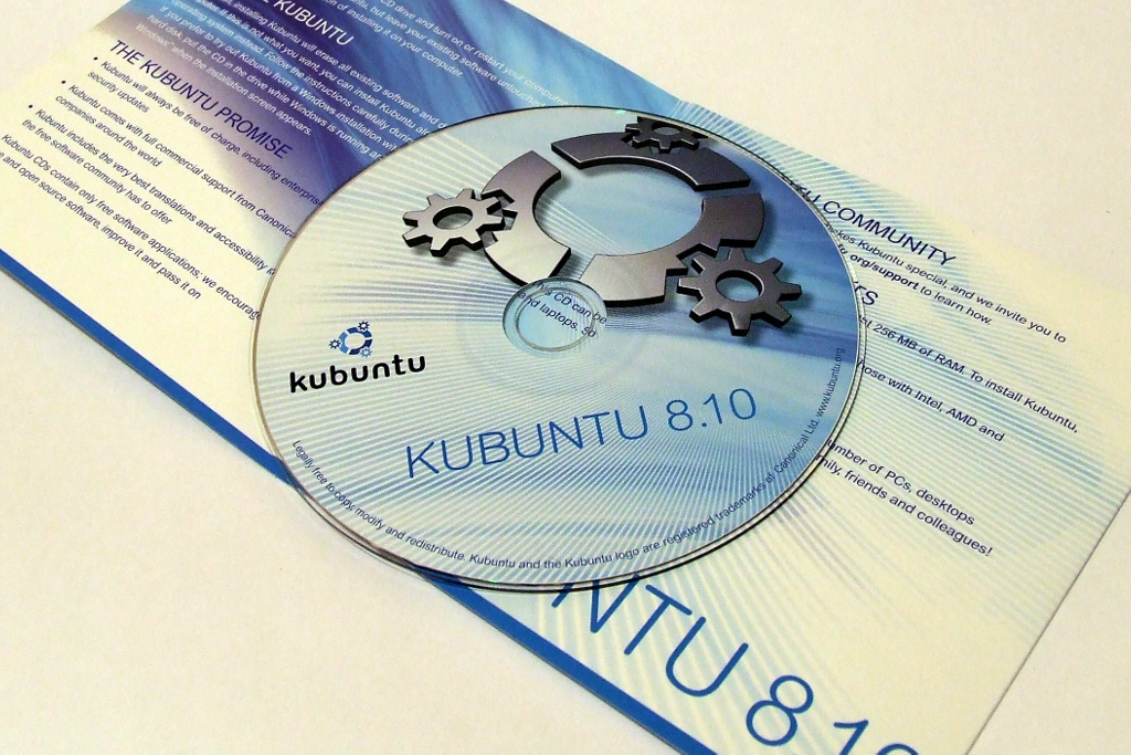 Kubuntu 8.10 CD